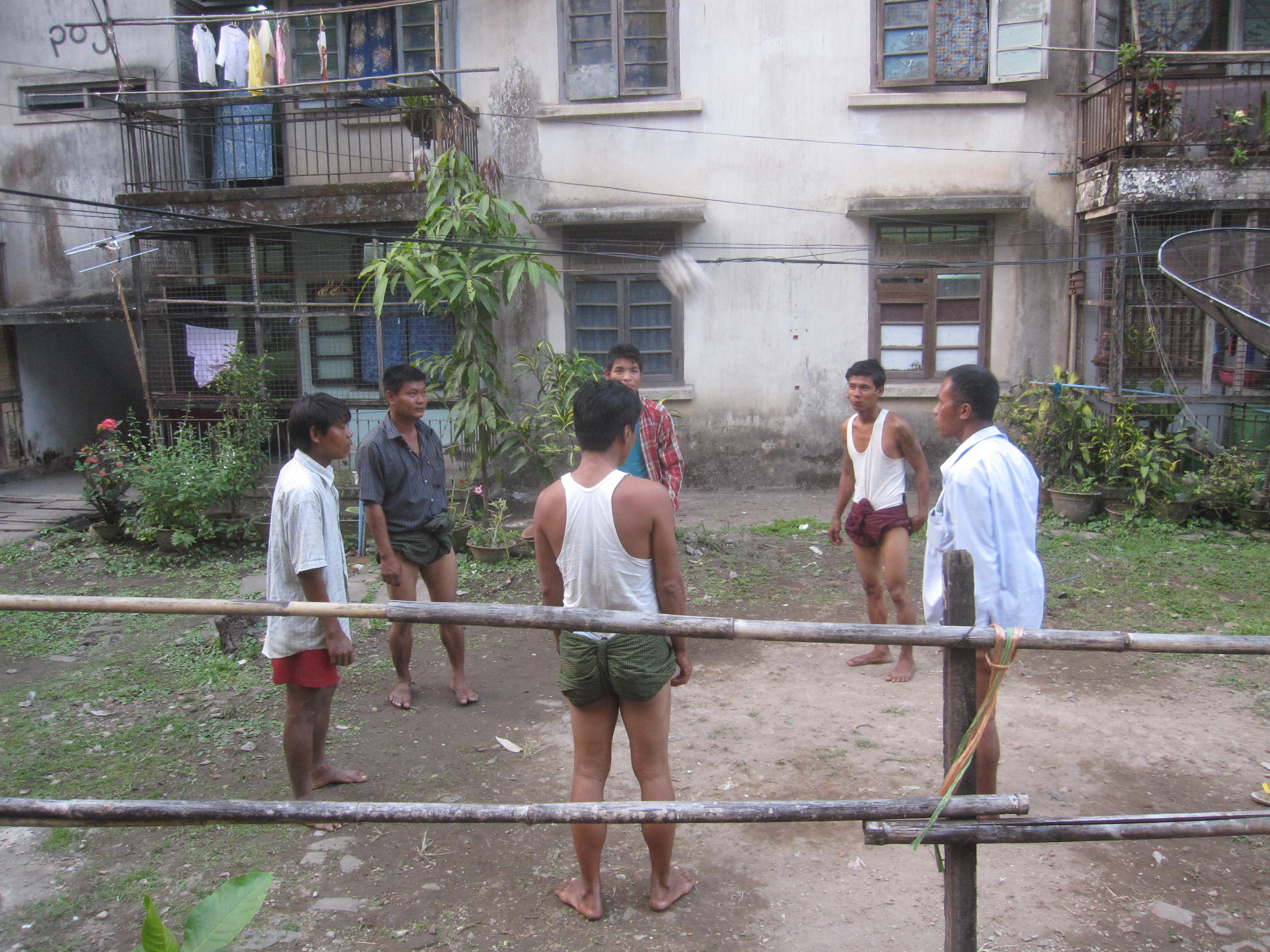 Burmese men with their longyi hitched up, playing chinlon in a Yangon neighbourhood